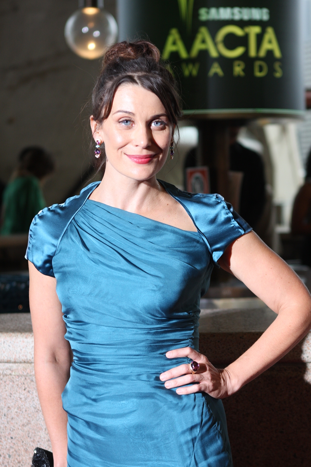 Australian actress Diana Glenn at the AACTA award 2012, Sydney, Australia